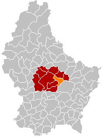 Own edit of Kanton MerschLocatie.png